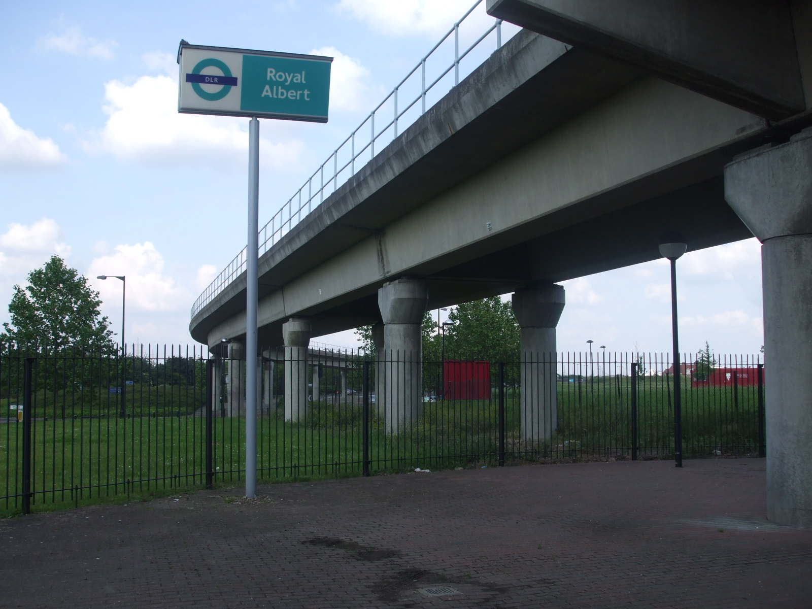 Royal Albert DLR station